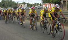 Author: Rolf Obermaier Source: Personal